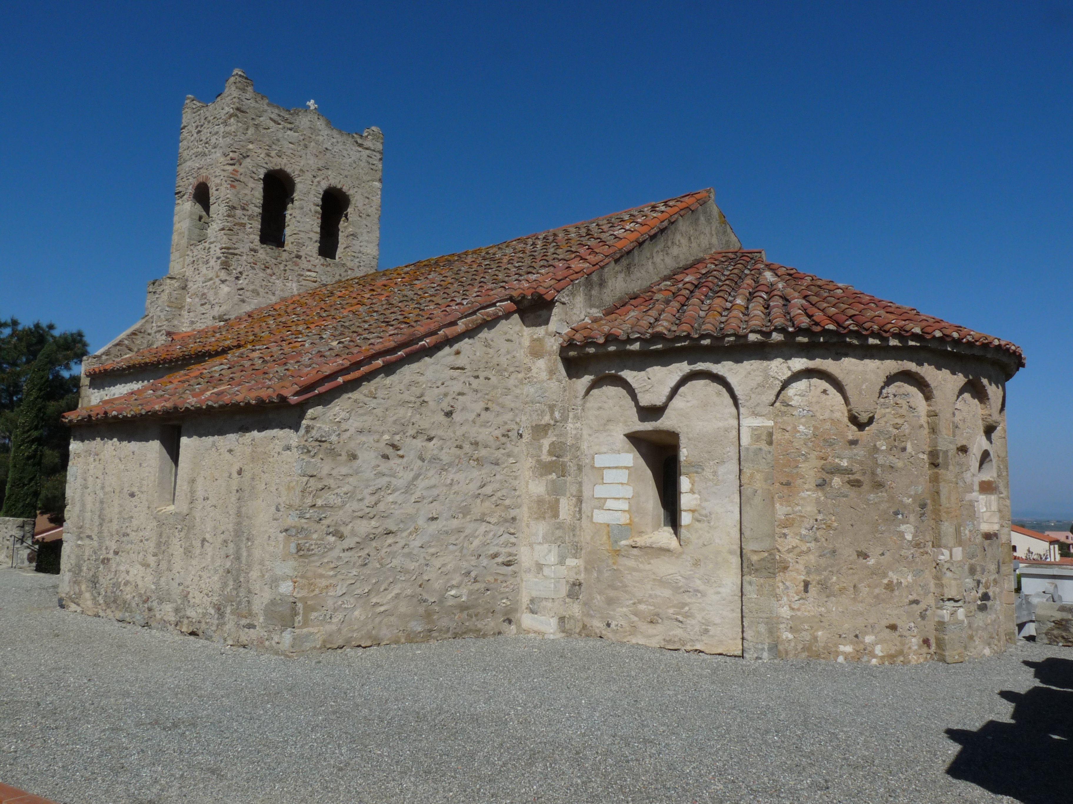 View of the church of Montesquieu-des-Albères (Pyrénées-Orientales, France)